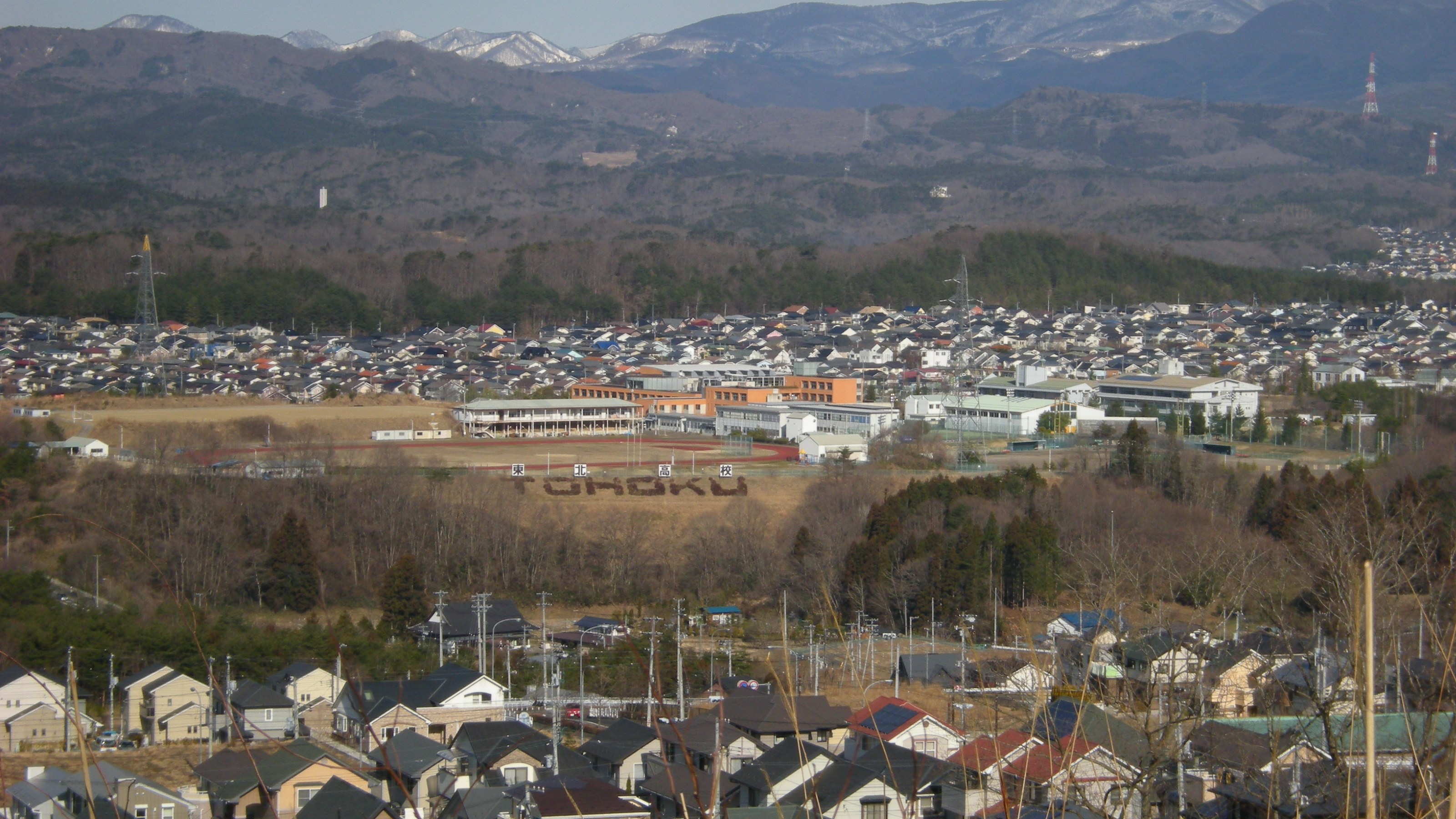 Izumi campus of Tohoku High School in Sendai city, Miyagi prefecture, Japan. You can see some playgrounds. You cannot see the entrance of the campus in this picture, because it is on the other side of the buildings.